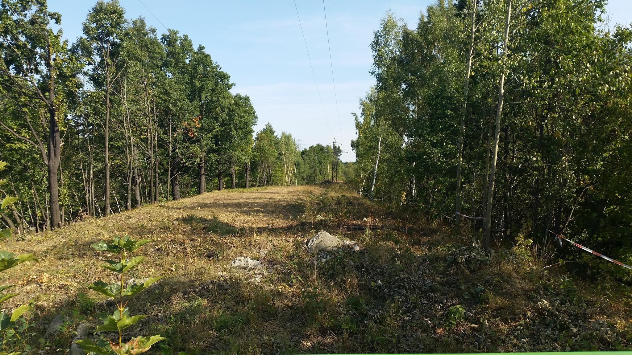 Golden Train in Wałbrzych